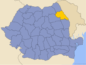 Location of Iași County in Romania.